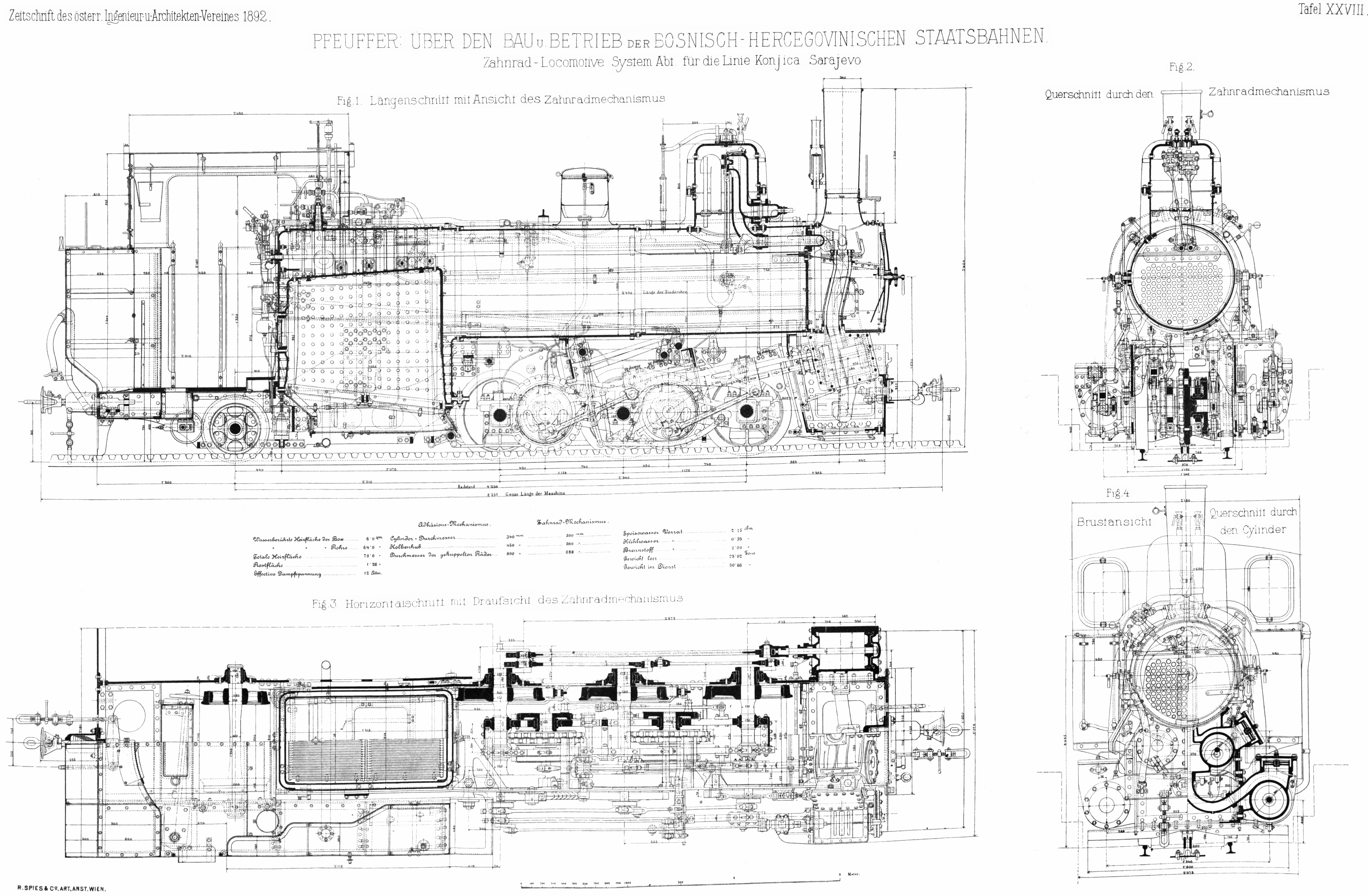 Technical drawing of the Abt system rack locomotive for the line Konjic - Sarajevo